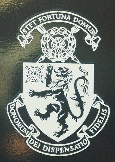 Coat of arms of Harrow school